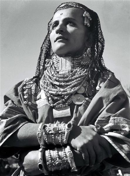 Yemenite Jewess in traditional garb.